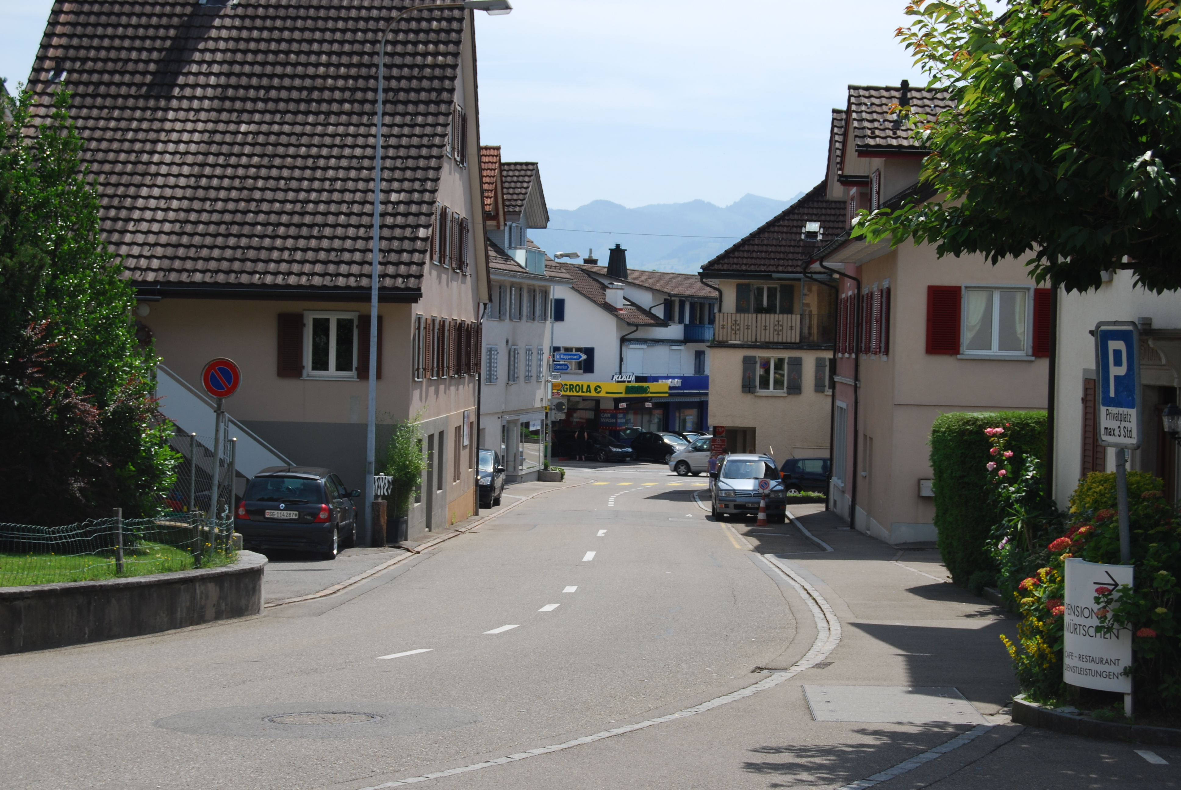 Eschenbach, canton of St. Gallen, SwitzerlandEsperanto: Eschenbach, Kantono Sankt-Galo, Svislando